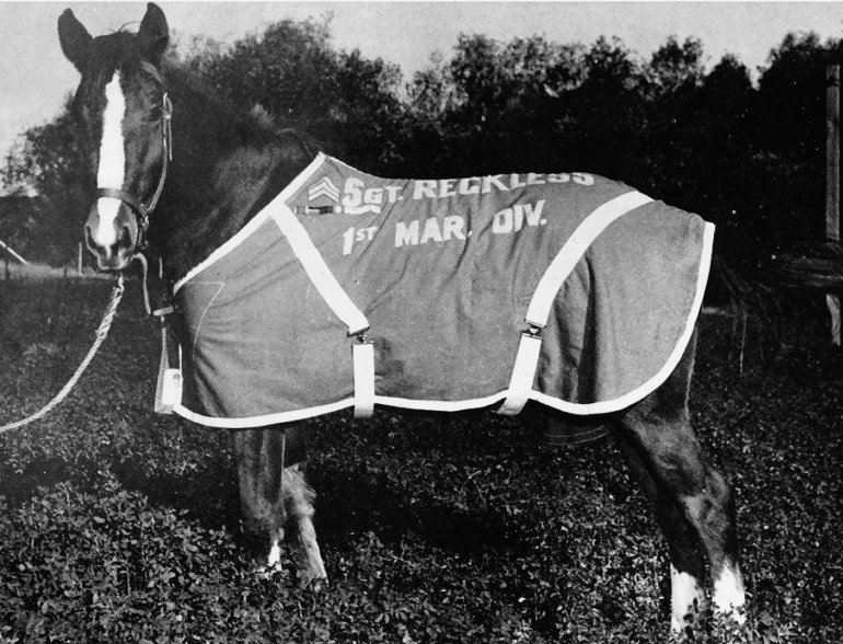 Sergeant Reckless a highly decorated US Marine Corps artillery horse in the Korean War is shown here in her red and gold horse blanket in an alfalfa field at Camp Pendleton, California.